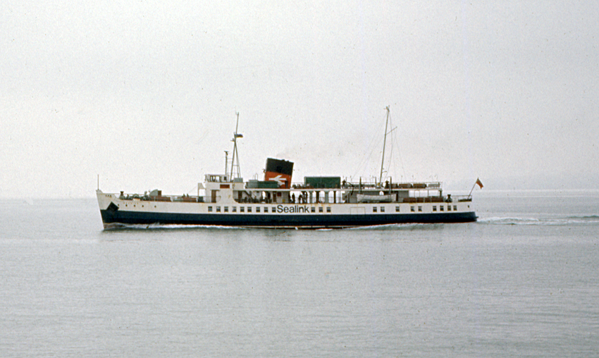 Sealink ferry Brading en route from Portsmouth to Ryde Pier Head IMO: 5050050 Information about the vessel may be found at IMO 5050050.A ship can change name and flag state through time, but the IMO number remains the same through the hull's entire lifetime. As a result, it can be useful to identify a ship by using the IMO number. Scanned from a Kodachrome 35mm slide.